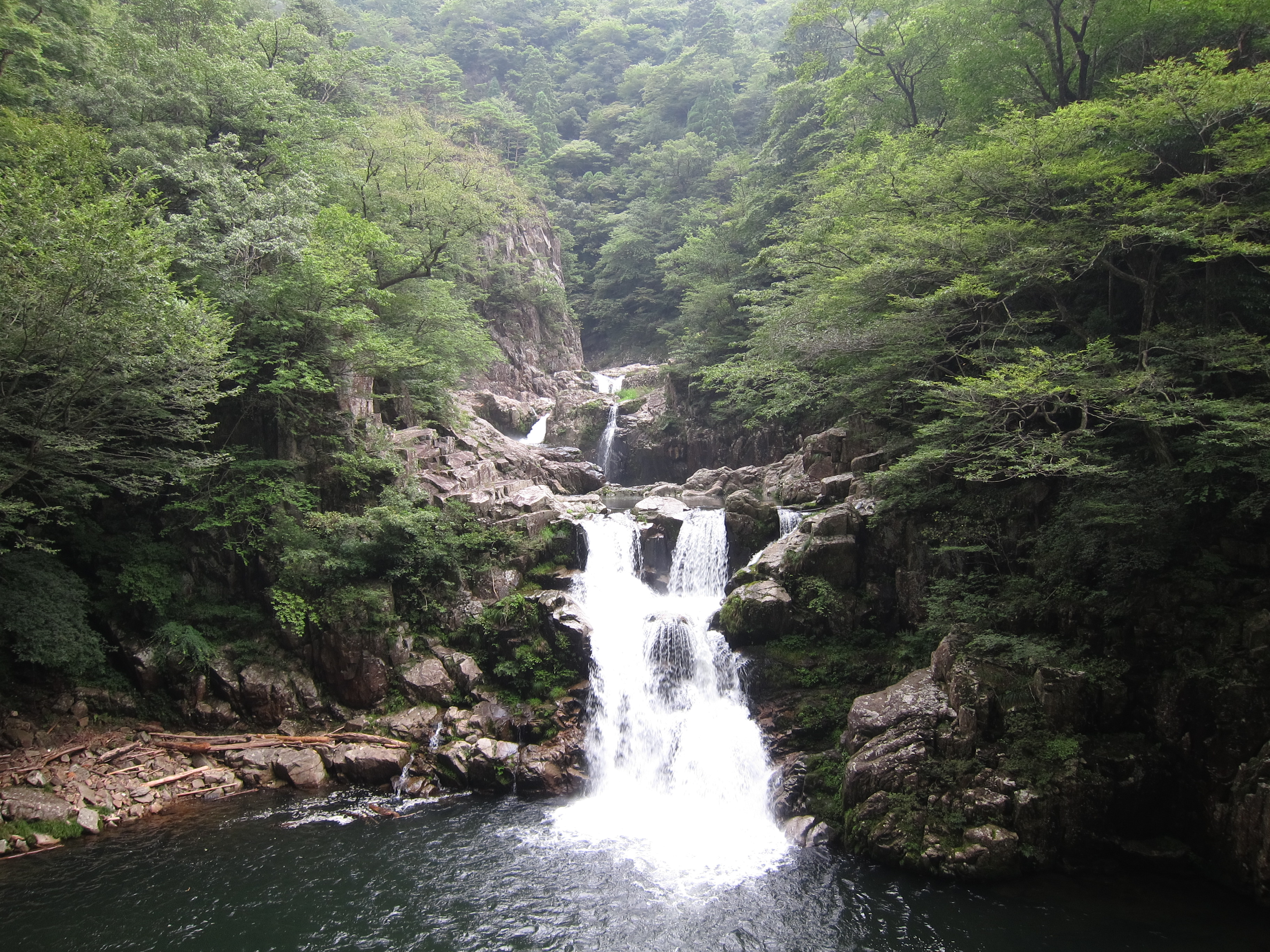 A view of Sandan Falls in Sandankyo, Akiota, Hiroshima Prefecture, Japan.